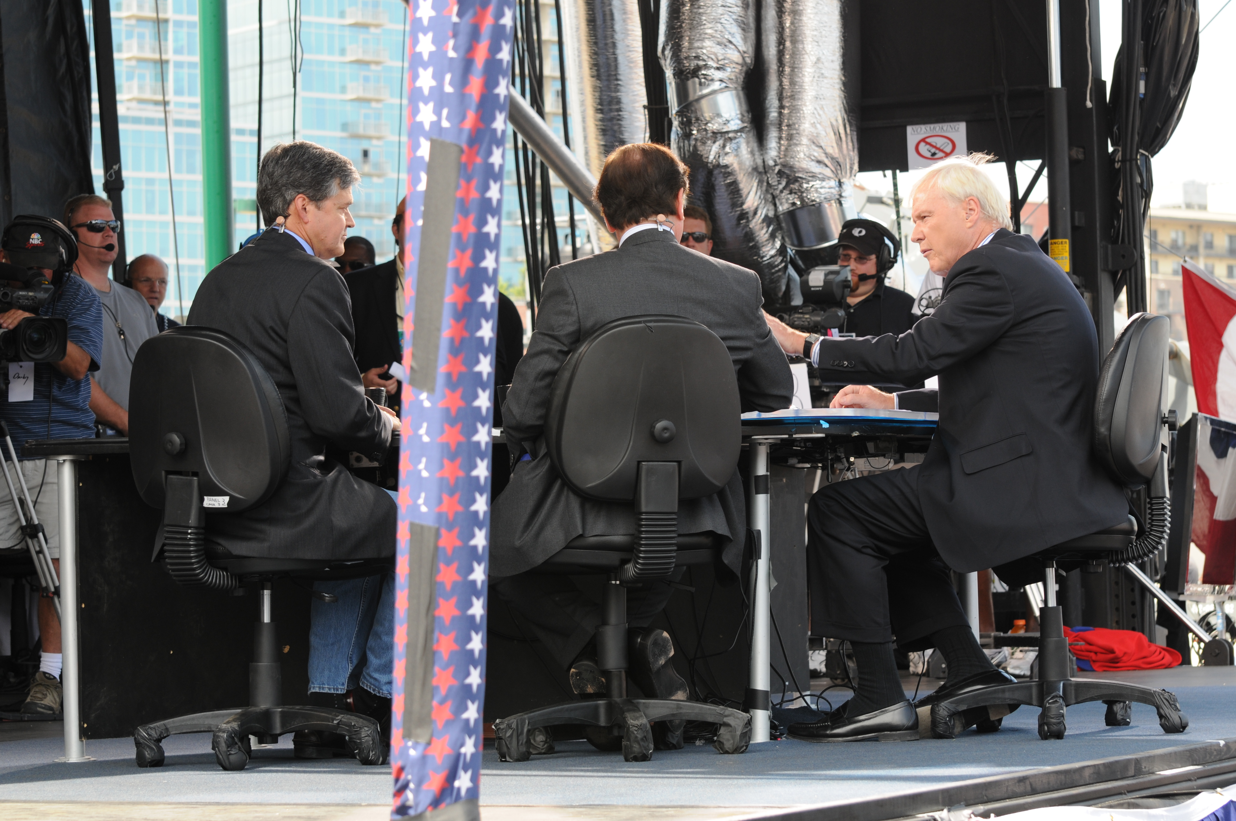 John Harwood and Howard Fineman being interviewed on HARDBALL (2008)